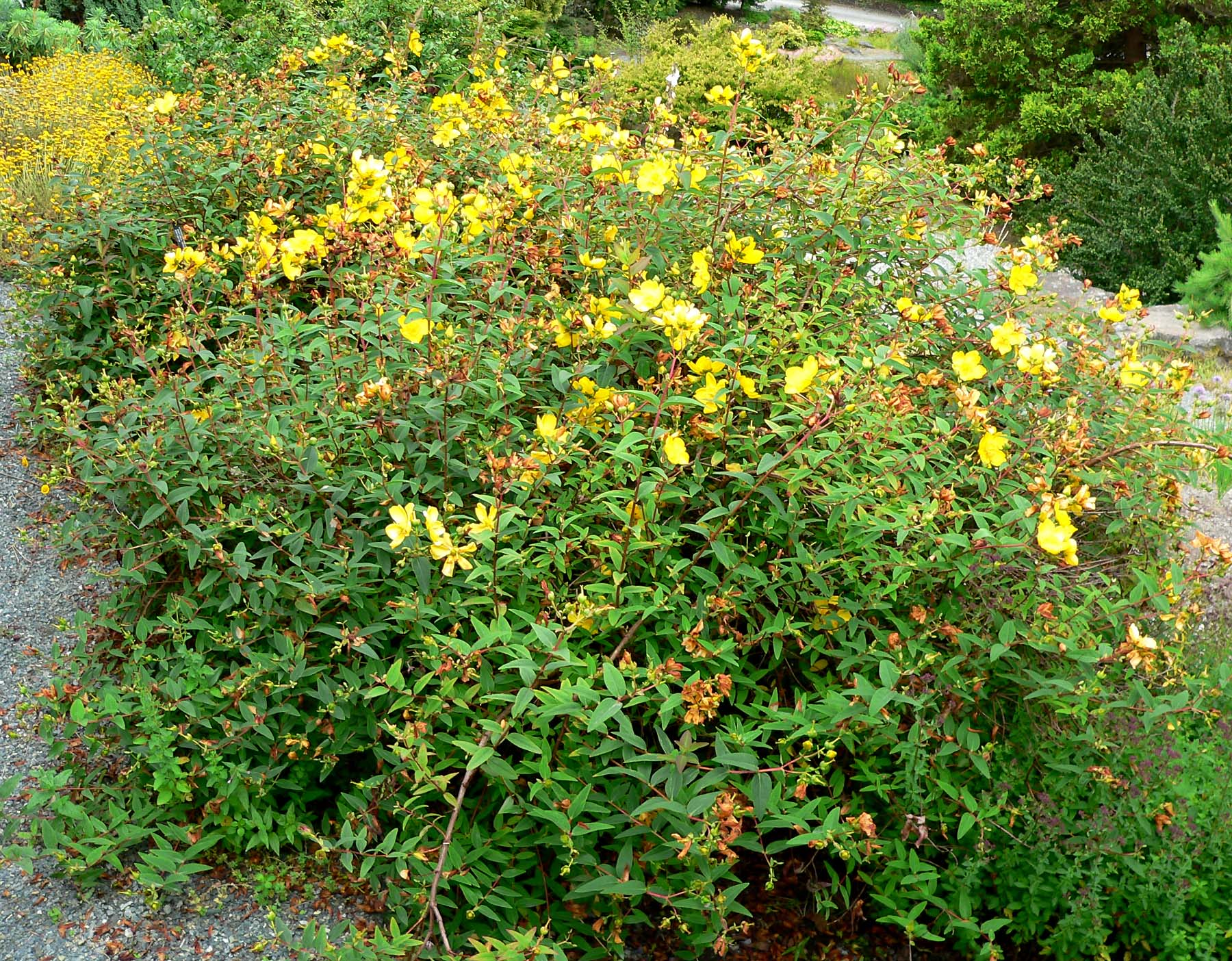 Photo of Hypericum 'Hidcote' at the UBC Botanical Garden